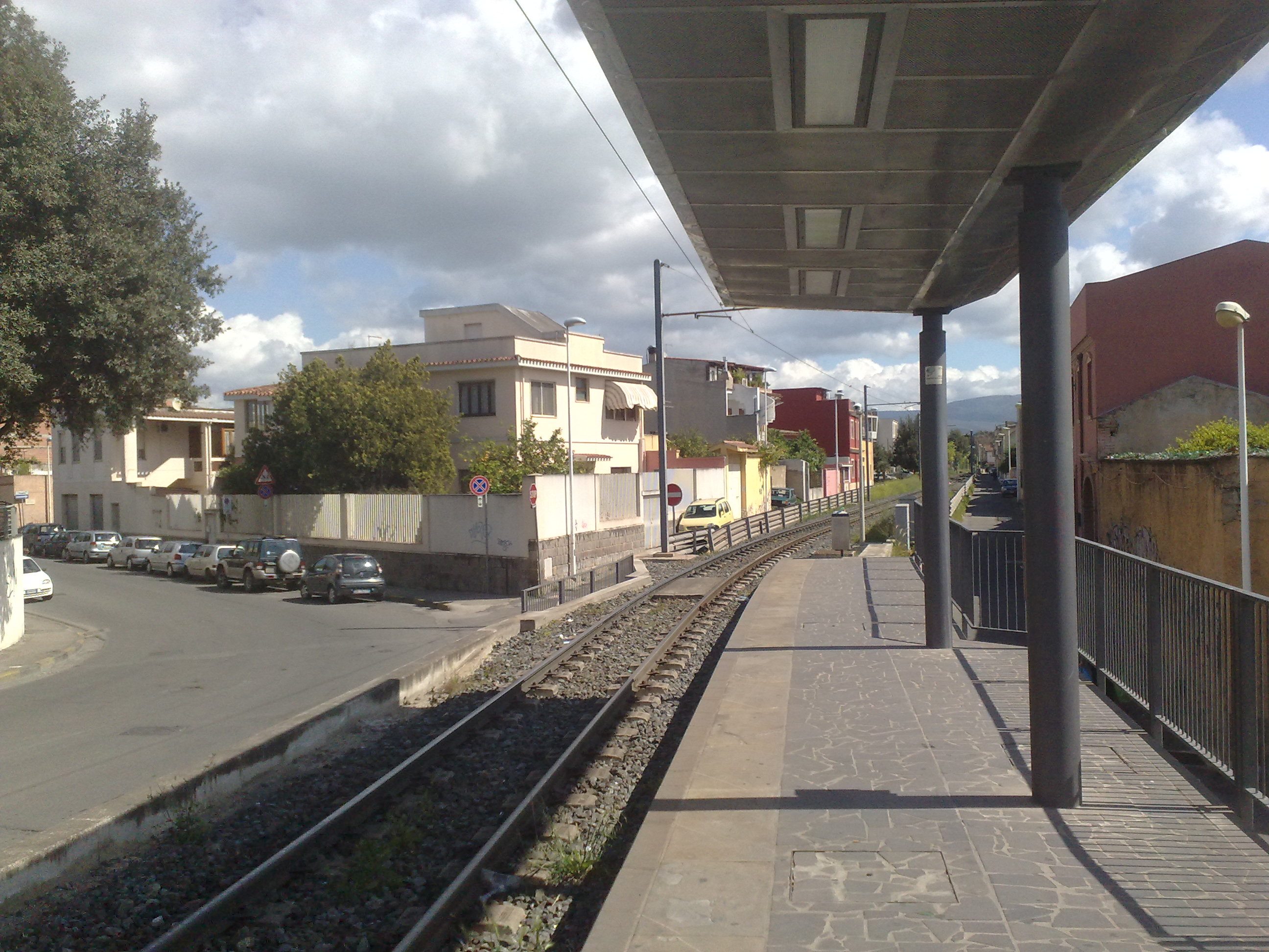 The Redentore halt in Cagliari, Sardinia, Italy, used for the light railway of Cagliari